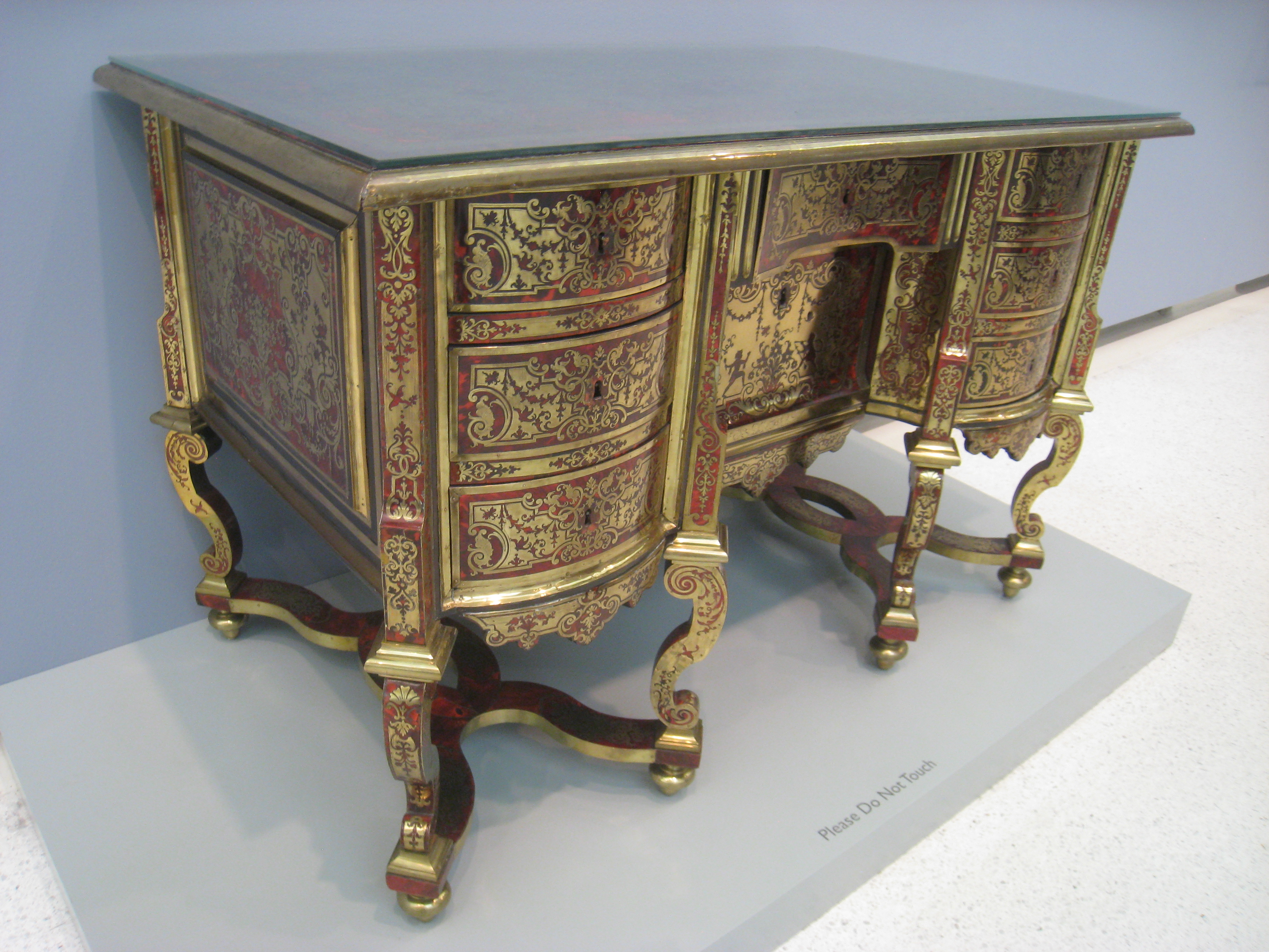 Andre-Charles Boulle (French, 1642-1732) or circle: Mazarin desk, c. 1690-1700, exhibited in the Carnegie Museum of Art, Pittsburgh, Pennsylvania, USA.